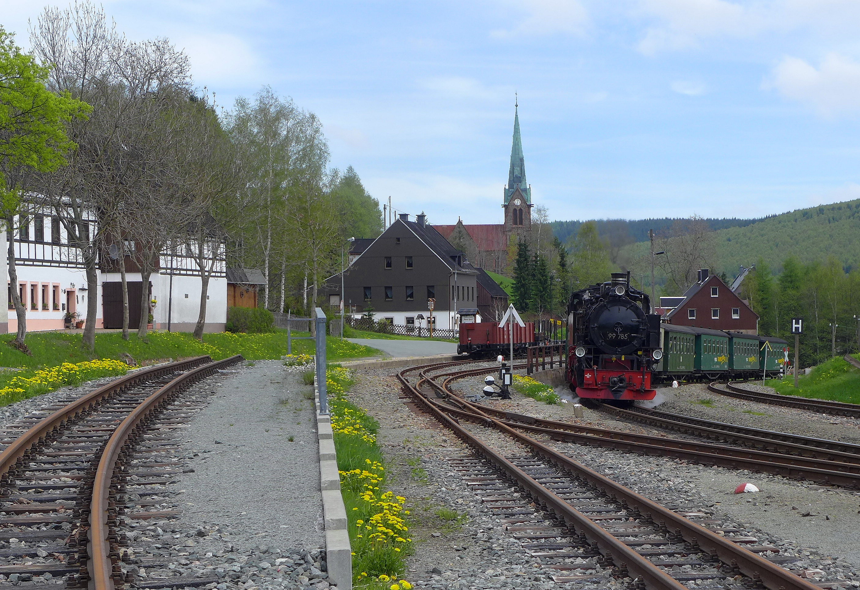 Train bound for Oberwiesenthal